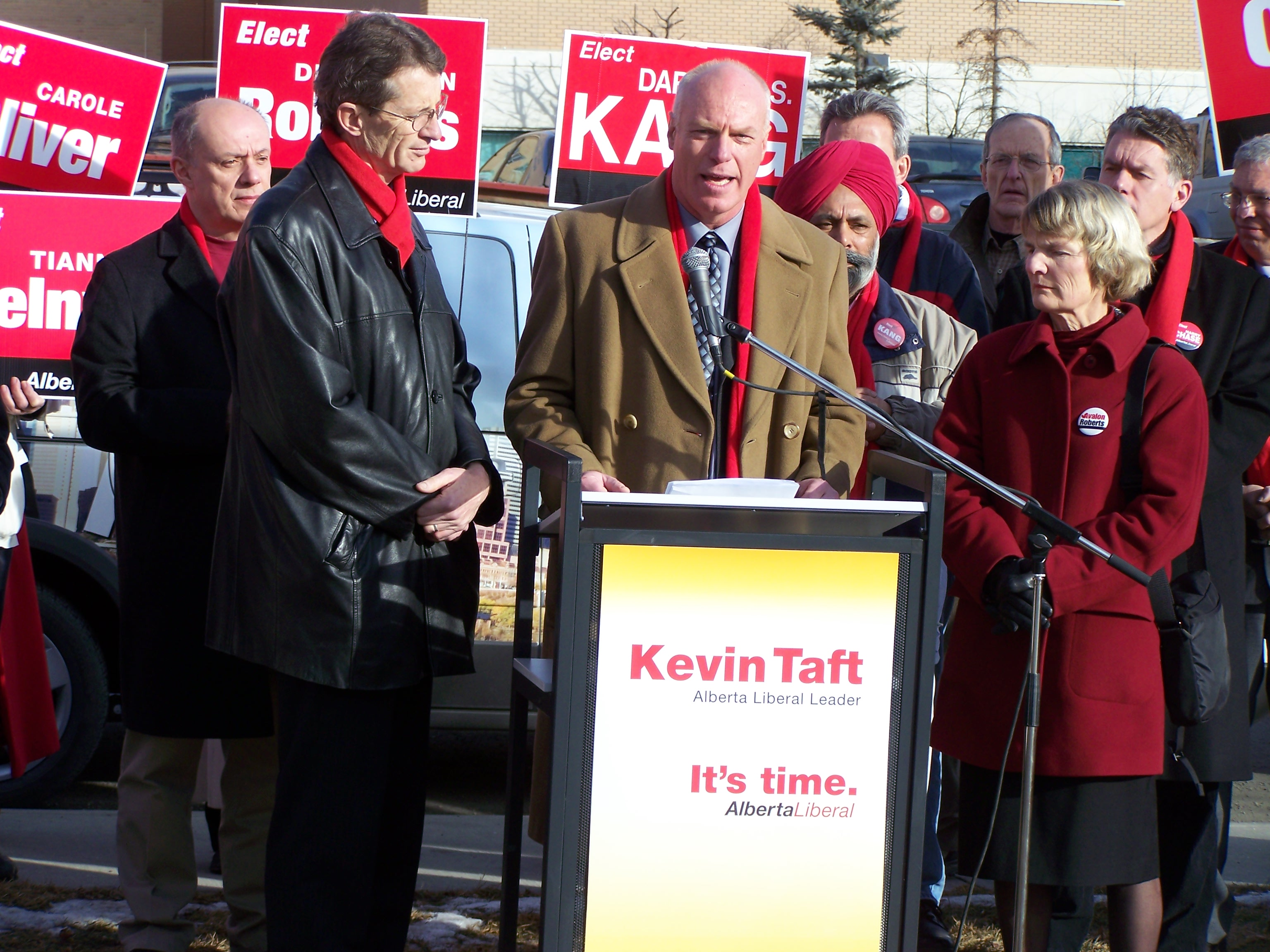 This from a press conference by Kevin Taft (seen at podium), leader of the Alberta Liberal Party in Calgary, Alberta, Canada. He was near the site of the old Holy Cross Hospital in Calgary, to deliver a campaign speech about Health Care reform in the province. Kevin Taft is in the foreground at the podium. To the left (his right) is David Swann, a fellow Liberal MLA.